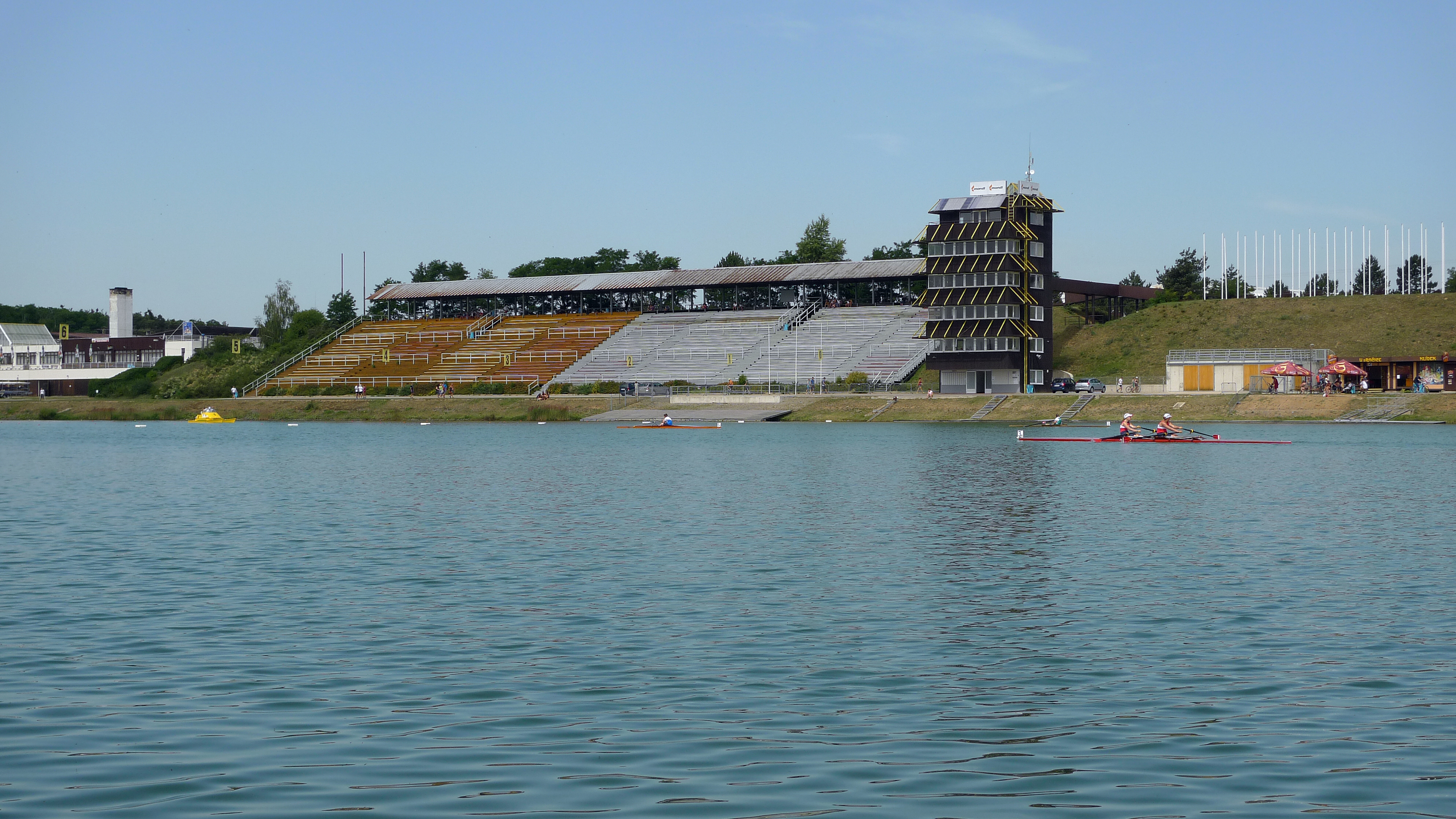 Rowing Canal Račice, Czech Republic